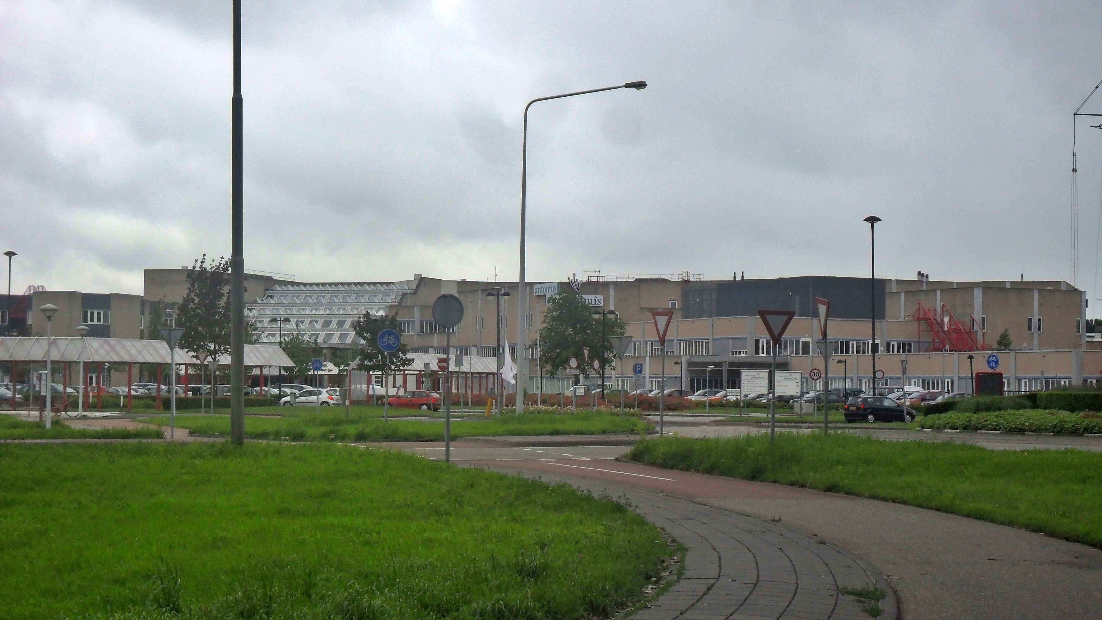 Antonius Hospital Sneek